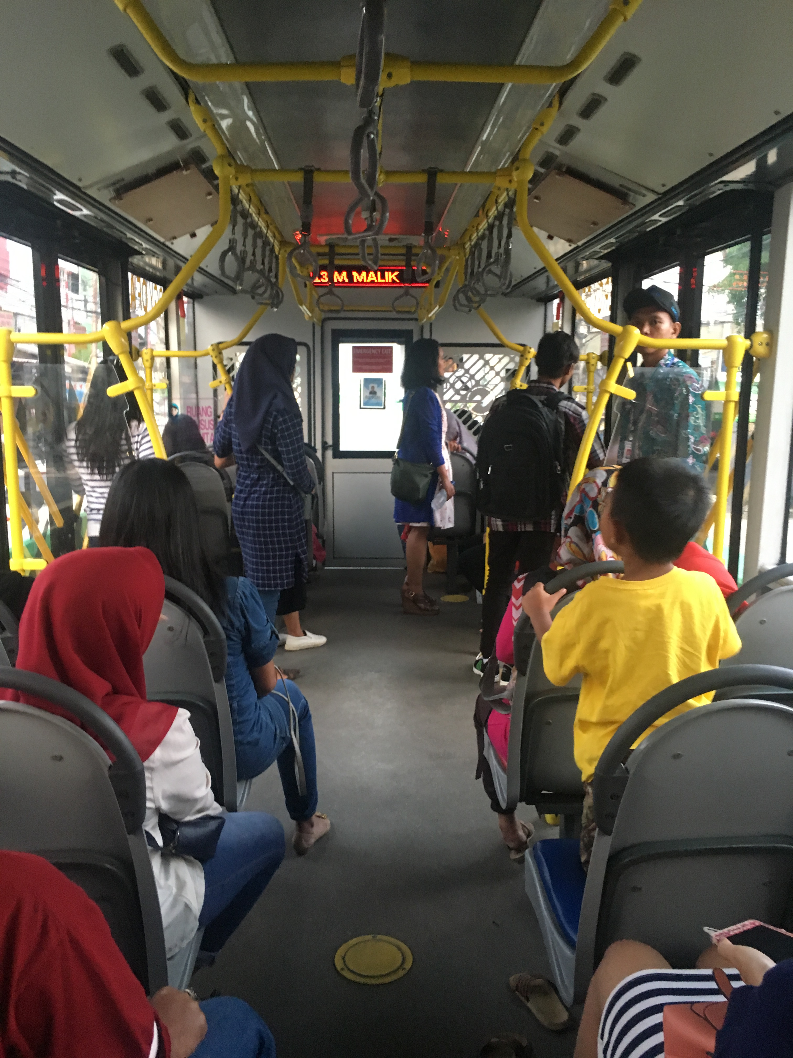 Inside a TransJakarta Corridor 13 bus.